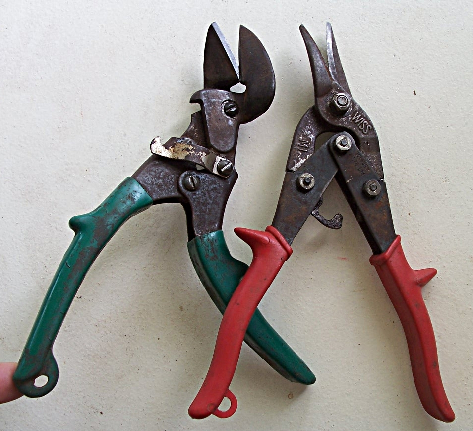 Photograph by Bill Bradley. billbeee 19:48, 26 April 2007 (UTC) Feel free to use it, just credit me as the photographer. phoy used on my website to illustrate article on metal roofing. You can contact me through my website my website